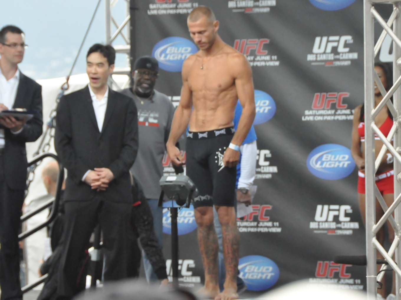 Donald Cerrone at the weigh in for the UFC 131.